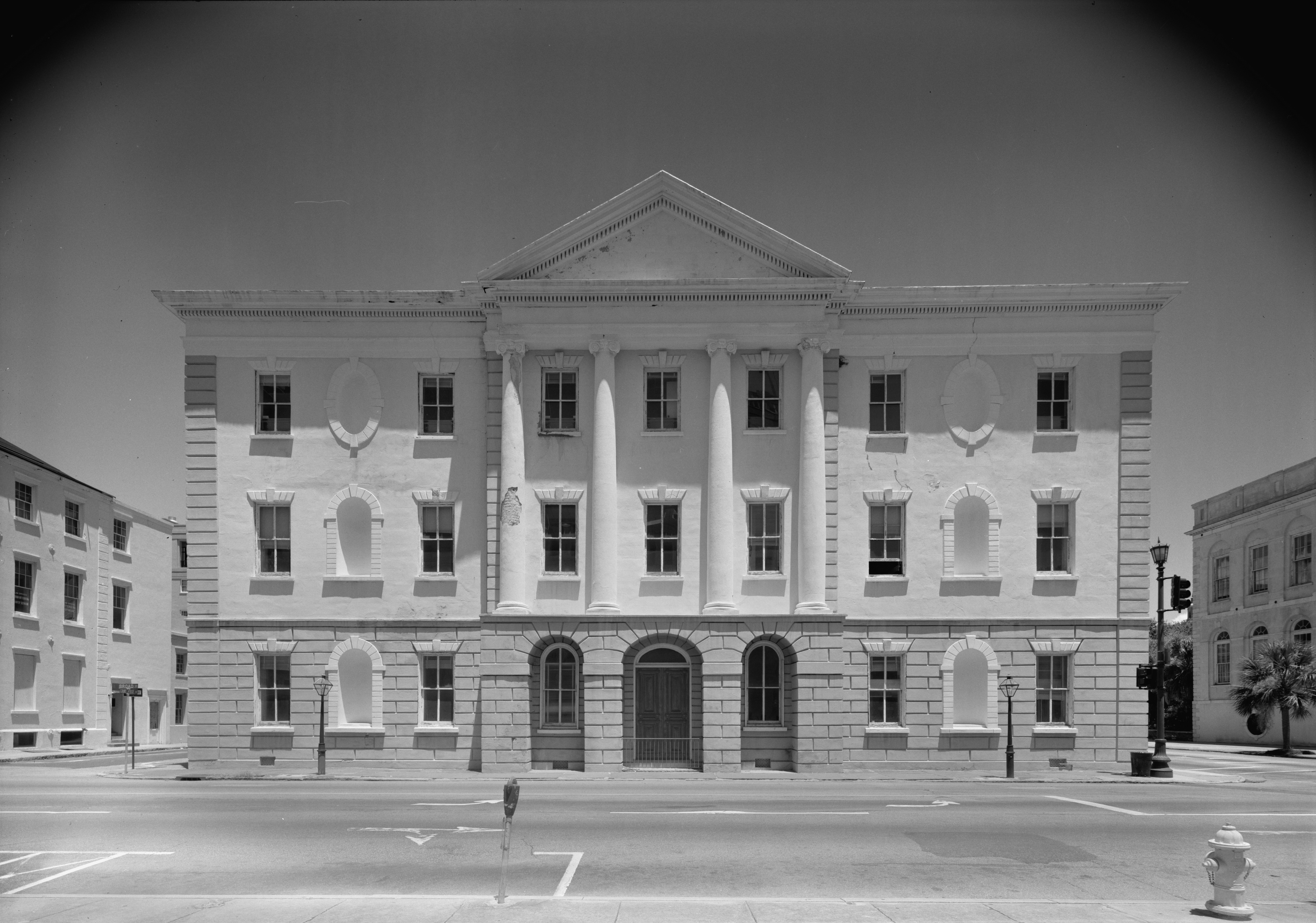 South elevation, Charleston County Courthouse, 82-86 Broad Street, Charleston South Carolina (1790-92), James Hoban, architect. The South Carolina Statehouse (1753), on this site, burned in 1788. With the transfer of the state capital from Charleston to Columbia in 1790, Hoban incorporated the ruins into his Neo-classical courthouse, adding a third story. President Washington saw this building on his visit to Charleston in May 1791. In July 1792, Hoban won the design competition for The White House.